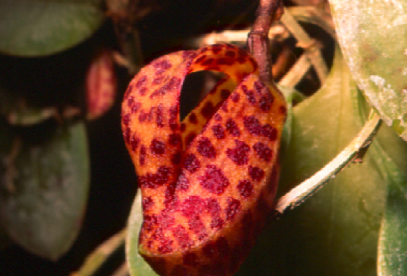 Epibator ximenae